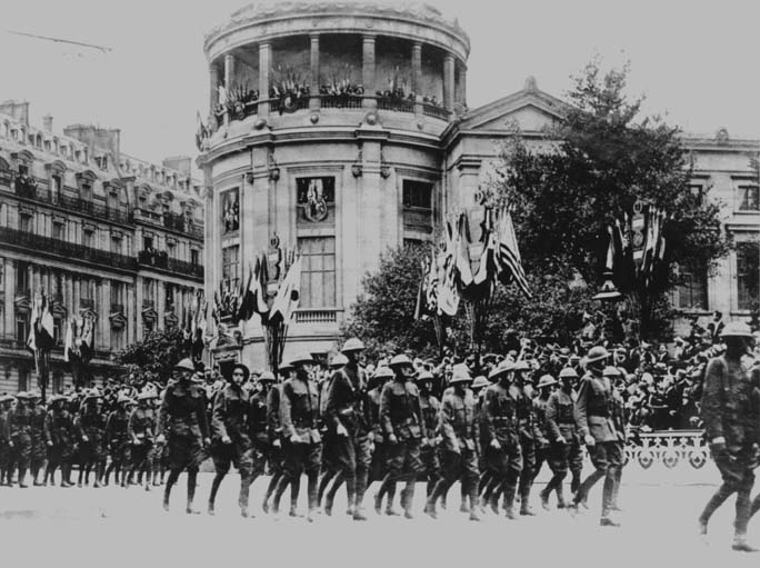 WWI Victory Parade: Victorious Marines parade in France following the end of World War I. The 11th hour of the 11th day of the 11th month marks the 90th Anniversary of the cessation of hostilities along the Western Front. [Independance Day Parade, Fourth of July Celebration, 1918. The building in the background is the Musée Guimet. See other versions below]